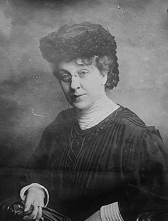 Caroline Bartlett Crane (1858 - 1935), Unitarian minister, suffragist, civic reformer, and social gospel advocate